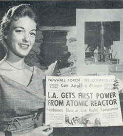 SRE HEADLINE-Gail Fowler, Aomics International Sodium Graphite Reactors, shows headline story in local paper about Sodium Reactor Experiment production of electricity. Event was widely heralded by nation’s press